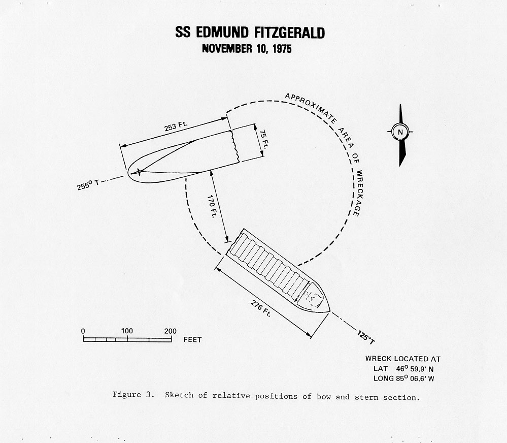 Figure 3: Sketch of the relative positions of the bow to the stern section